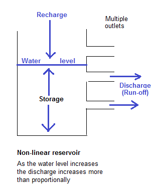 Schematic drawing of a non-linear reservoir used in rainfall-runoff modeling